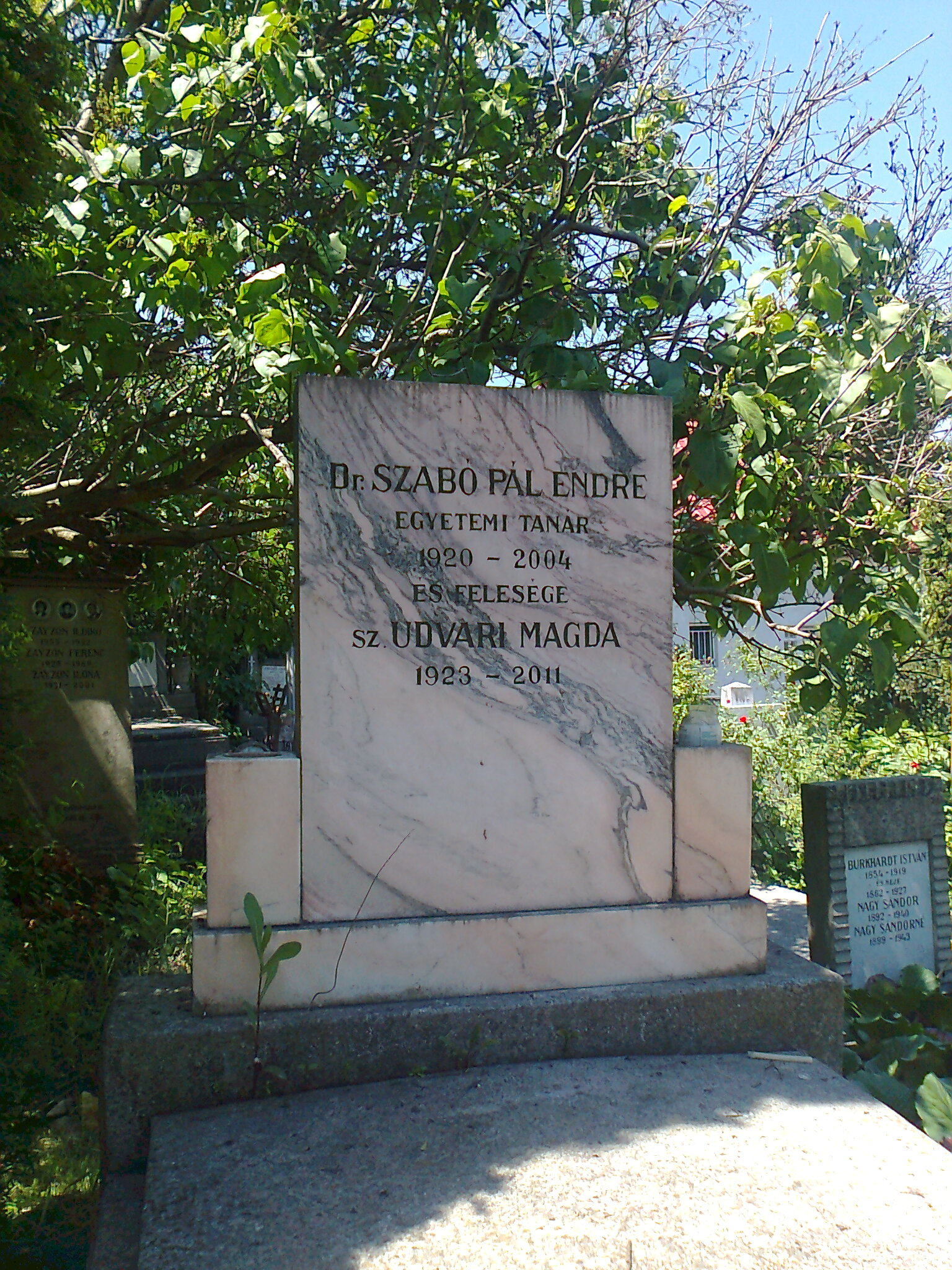 Tomb of jurist professor Pál Endre Szabó (1920-2004)